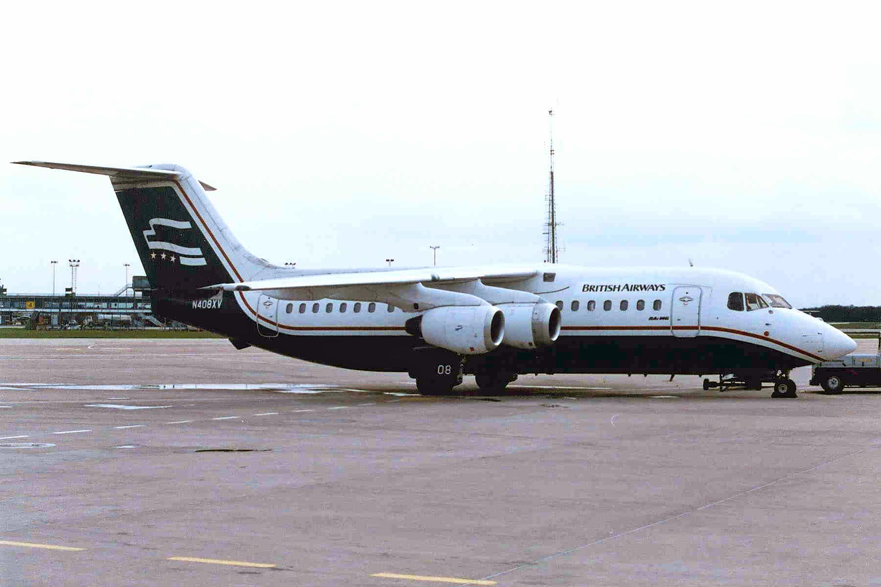 Leased from B.Ae to British Airways for a short period, this 146-200 retained the basic c/scheme of Presidential Airways